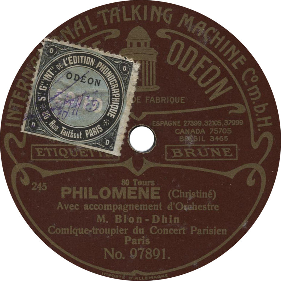 Disc label